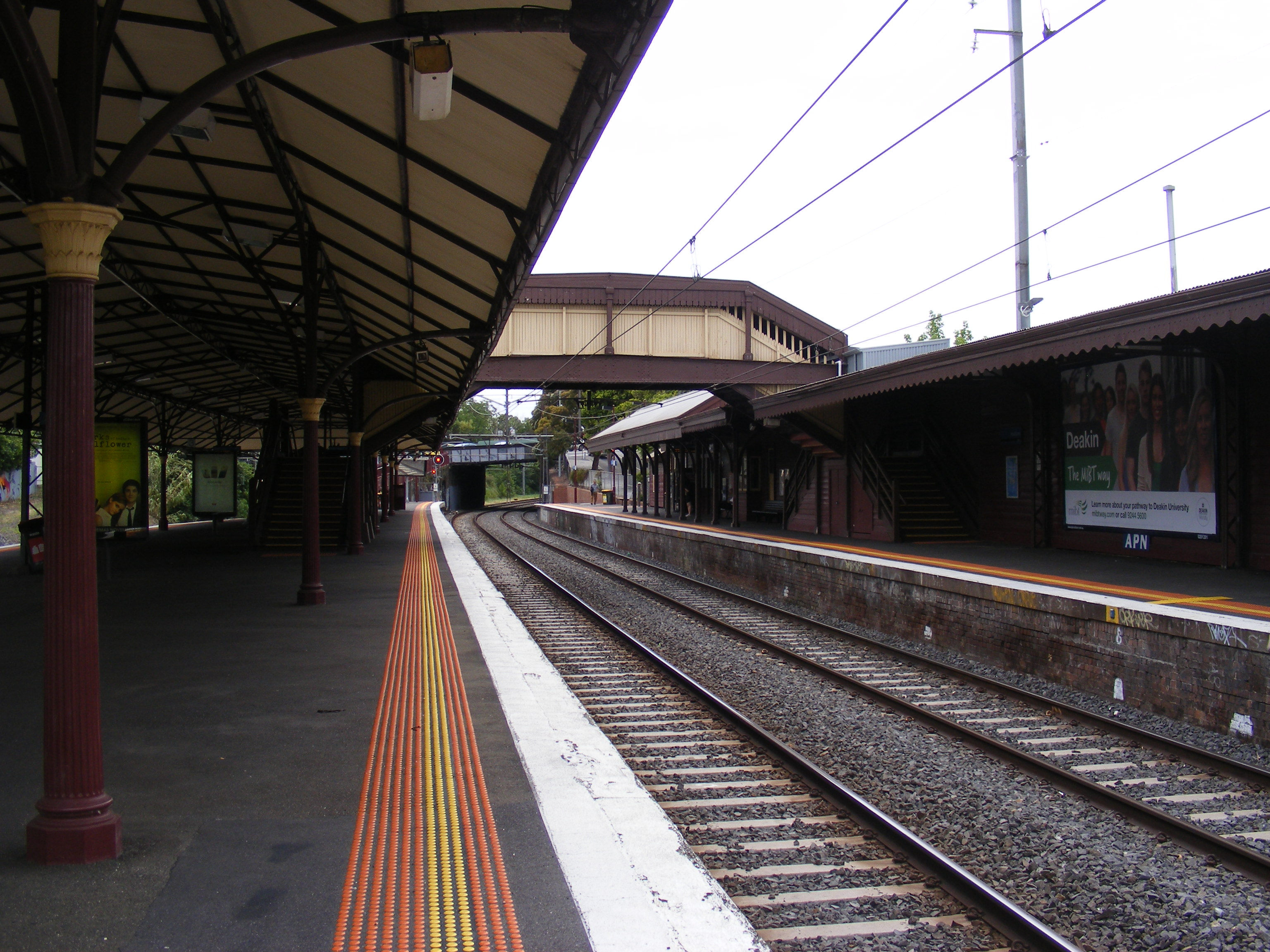 View from platform 2 looking east.